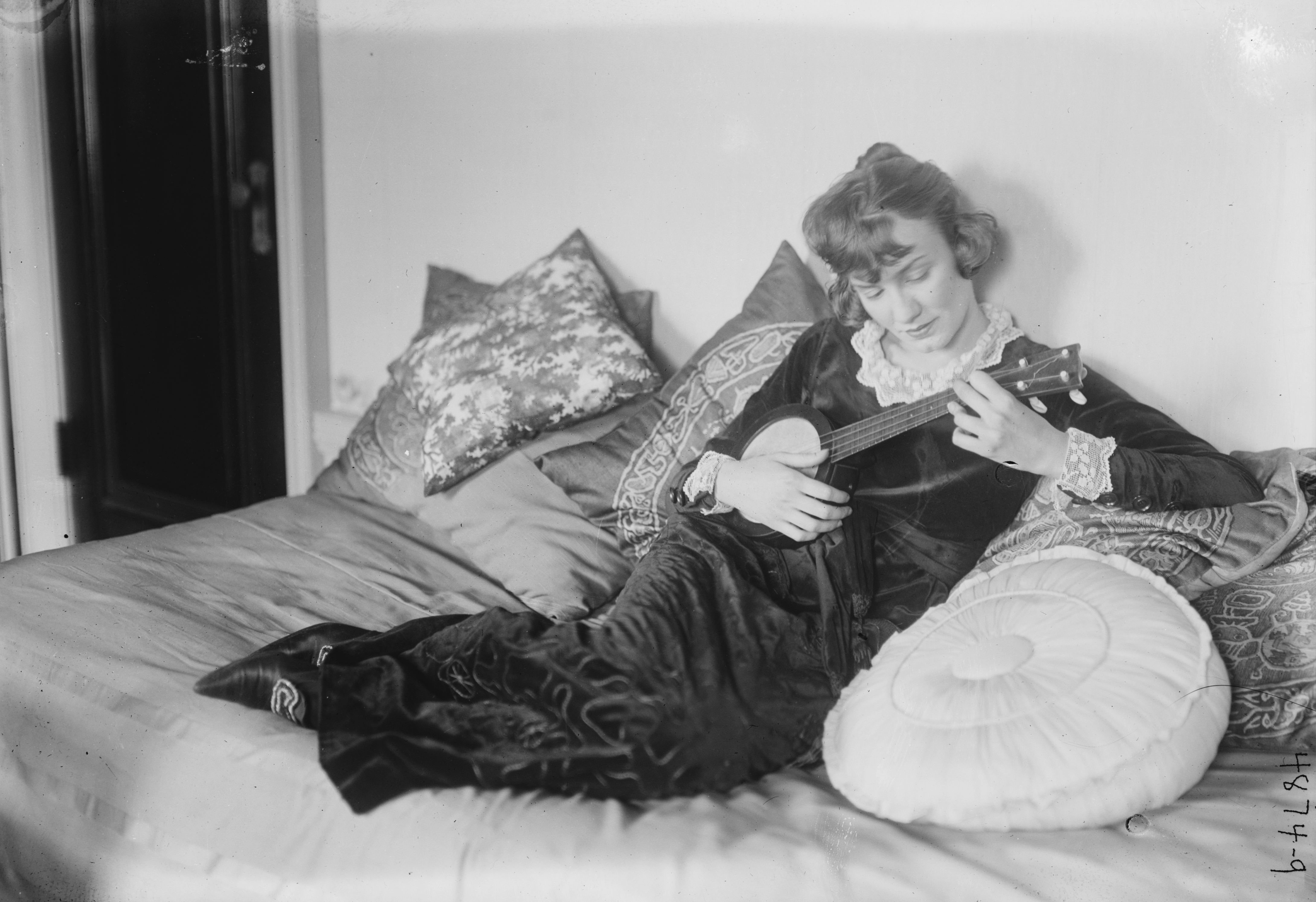 Marion Harris, reclining, with banjo ukulele